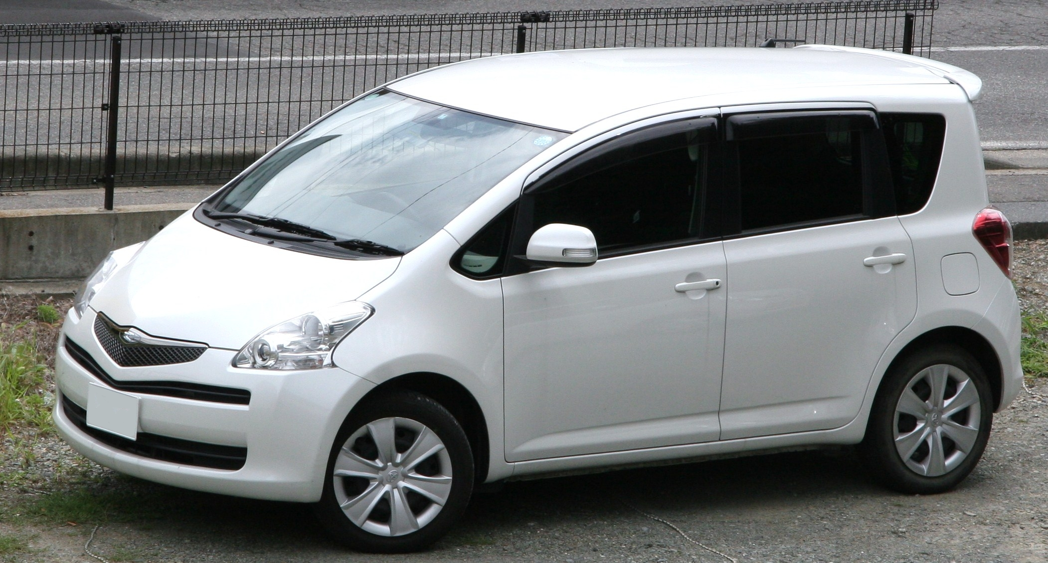 Toyota Ractis